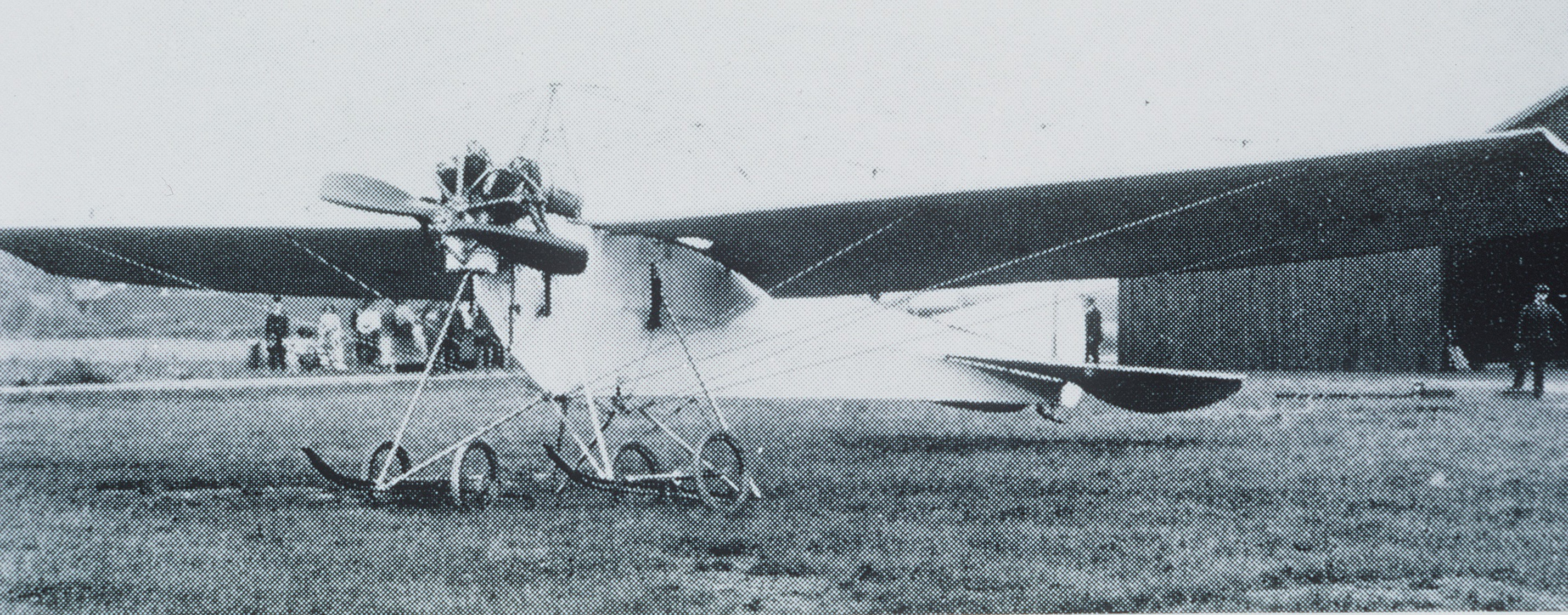 The Vickers R.E.P. Type Monoplane Douglas Mawson bought to take on his Australasian Antarctic Expedition, at Brooklands.